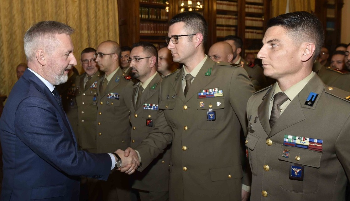 Italian Army - Italian Defense Minister Lorenzo Guerini visits the Army General Staff